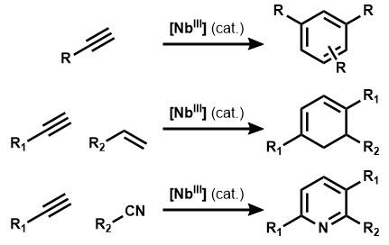 NbIII 2+2+2 cycloaddition reactions